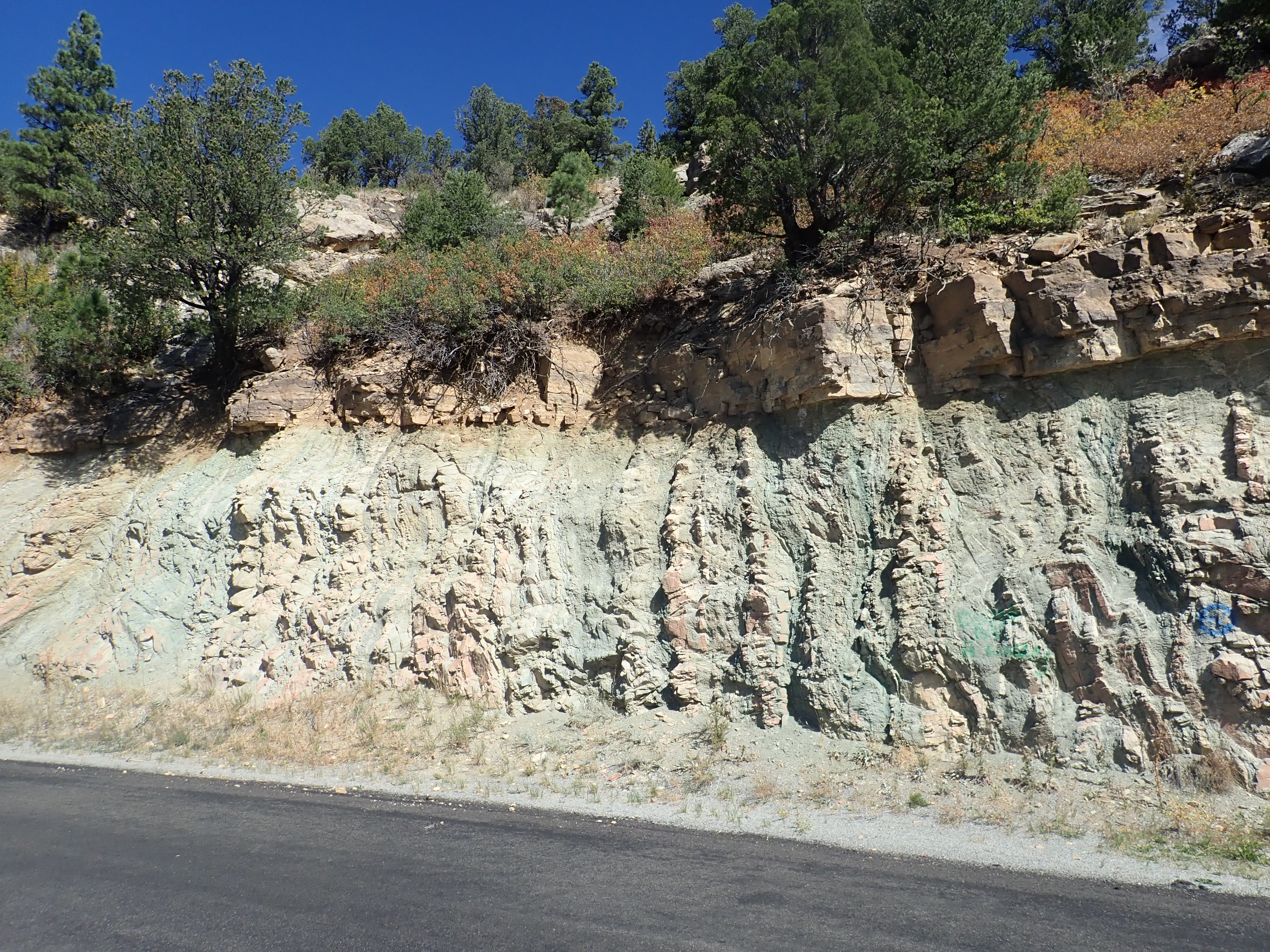 This image shows horizontal beds of the Mississippian Arroyo Penasco Group resting on Precambrian gneisses and schists. The latter have been tilted nearly vertical. This is an excellent example of the Great Unconformity and of an angular unconformity. The very flat unconformity surface shows that the Arroyo Penasco Group was deposited on a bedrock peneplain. Photographed just west of Montezuma, New Mexico, United States.